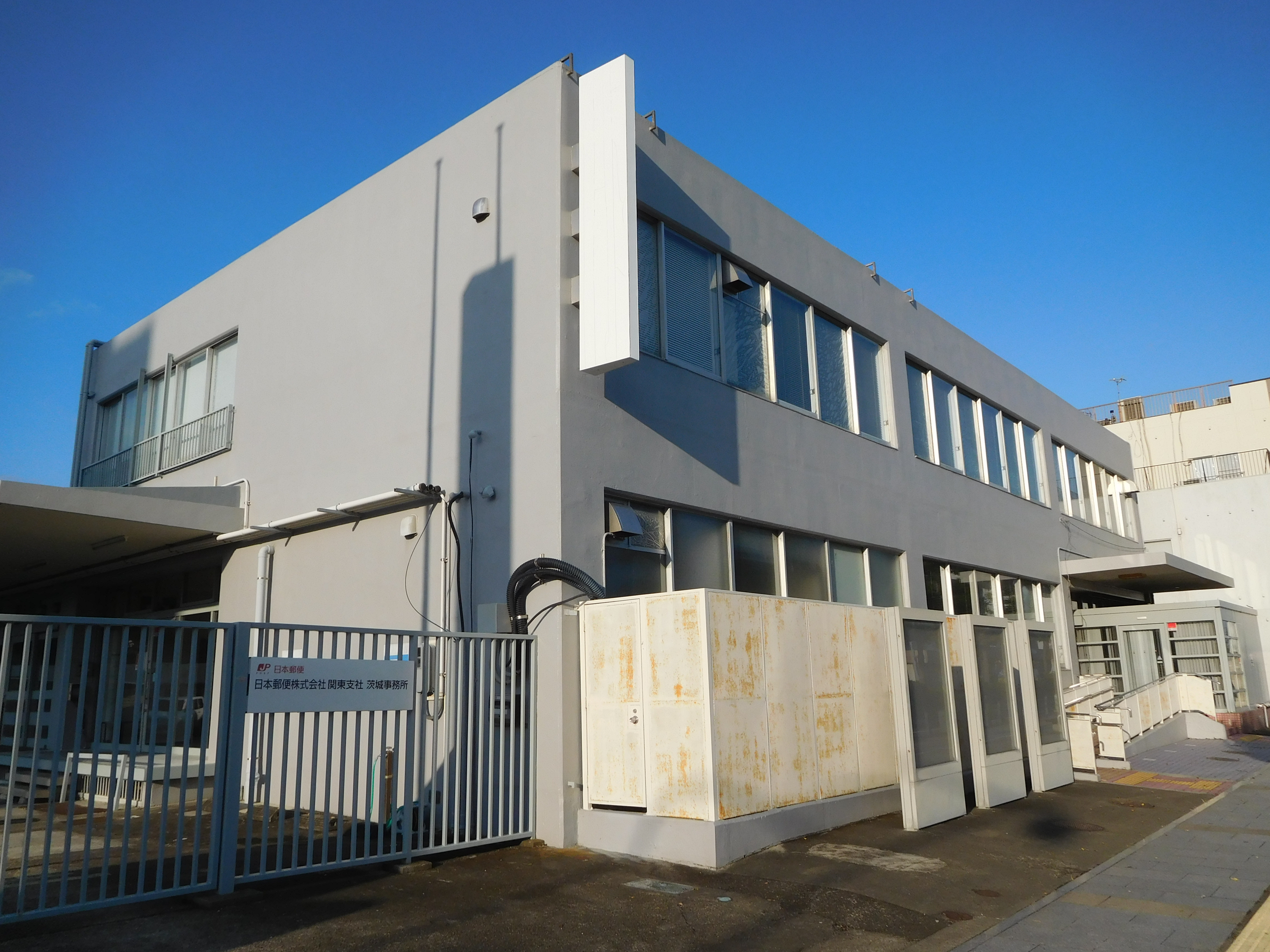 This is Japan Post Kanto Branch Ibaraki Office in Hitachinaka, Ibaraki, Japan. It was used as Hitachinaka post office.